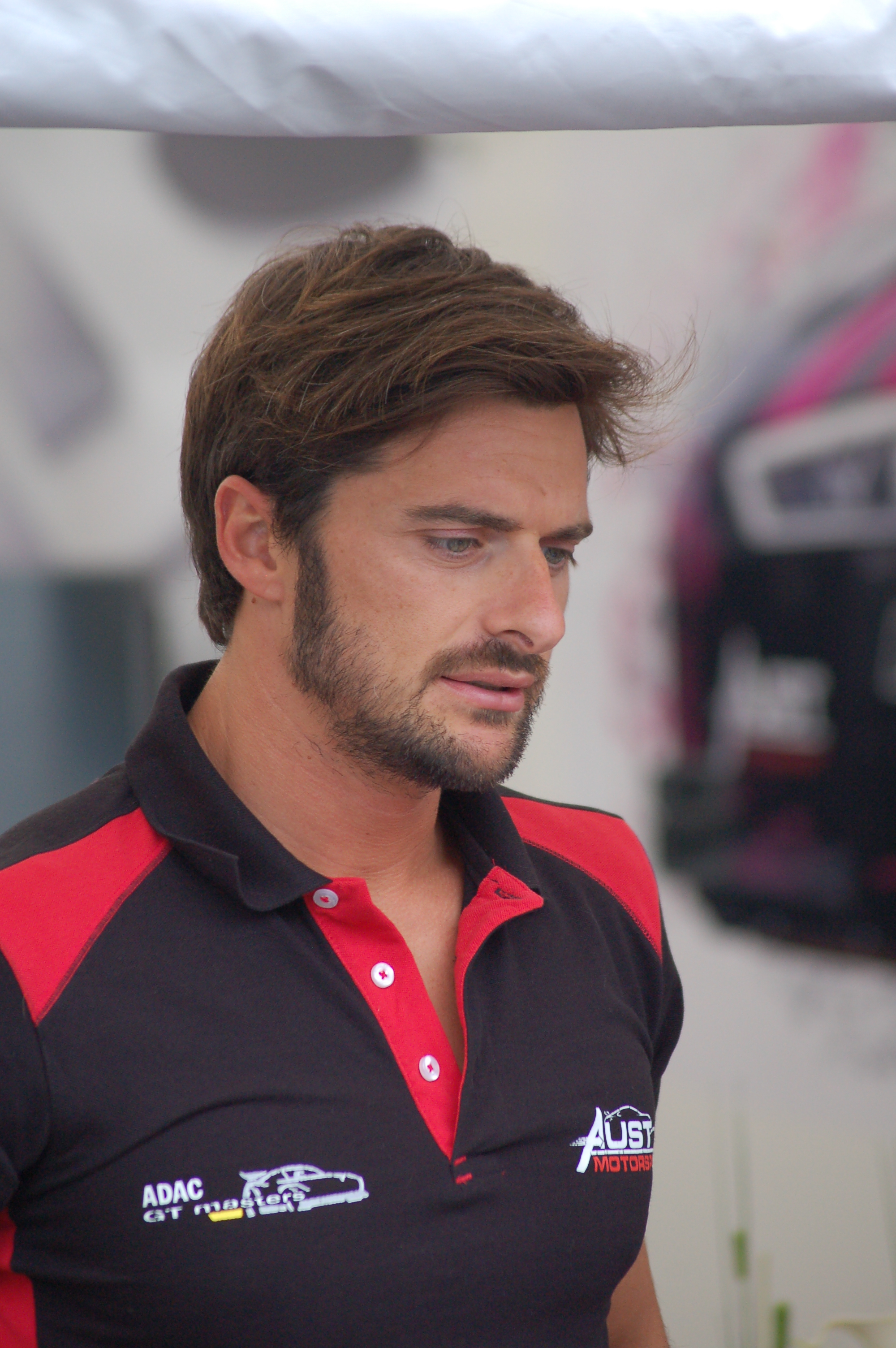 Marco Bonanomi in Zandvoort 2016